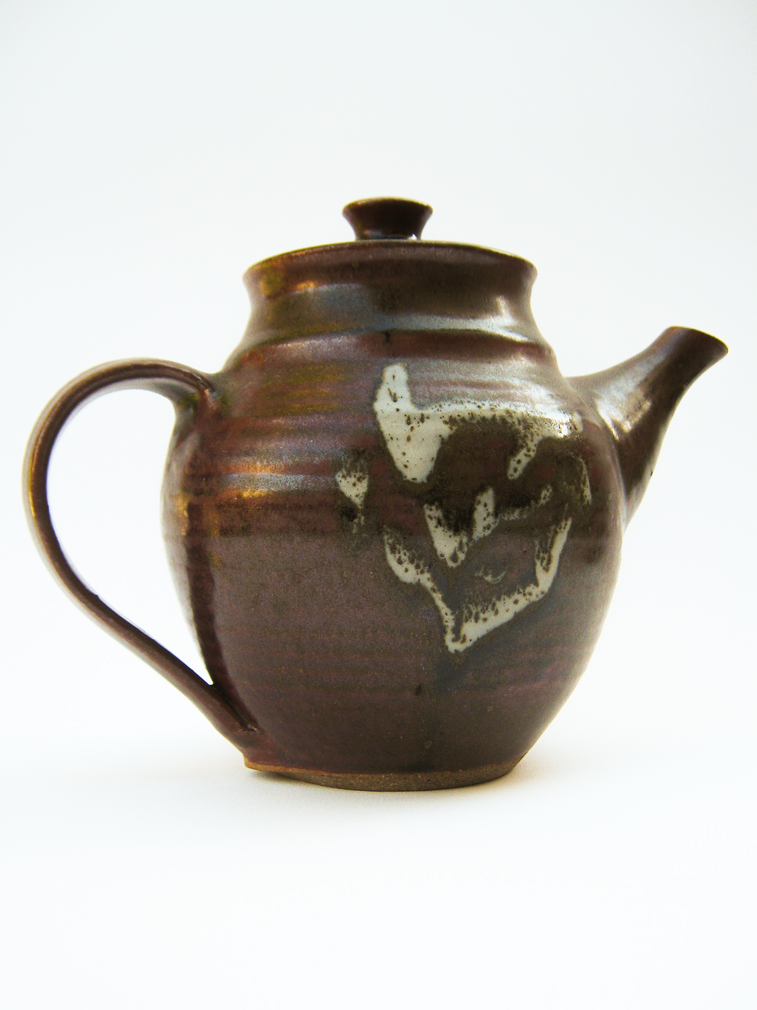 Iron-glazed teapot by Ian Sprague 1960s; photographed in a private collection at Elwood Victoria